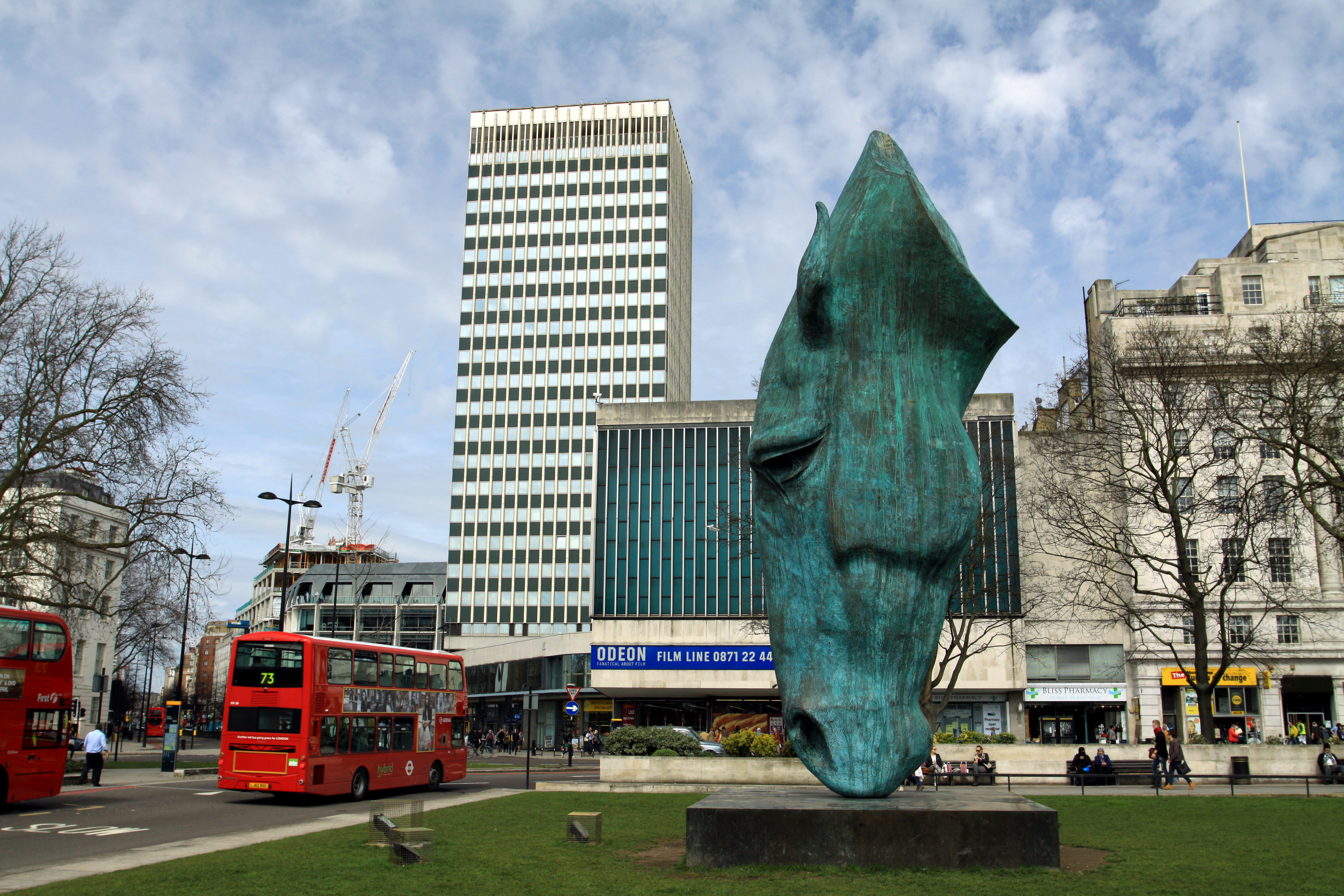 Still Water sculpture in the City of Westminster in Marble Arch near Hyde Park in the City of Westminster in London, Great Britain. The making of this file was supported by Wikimedia UK.